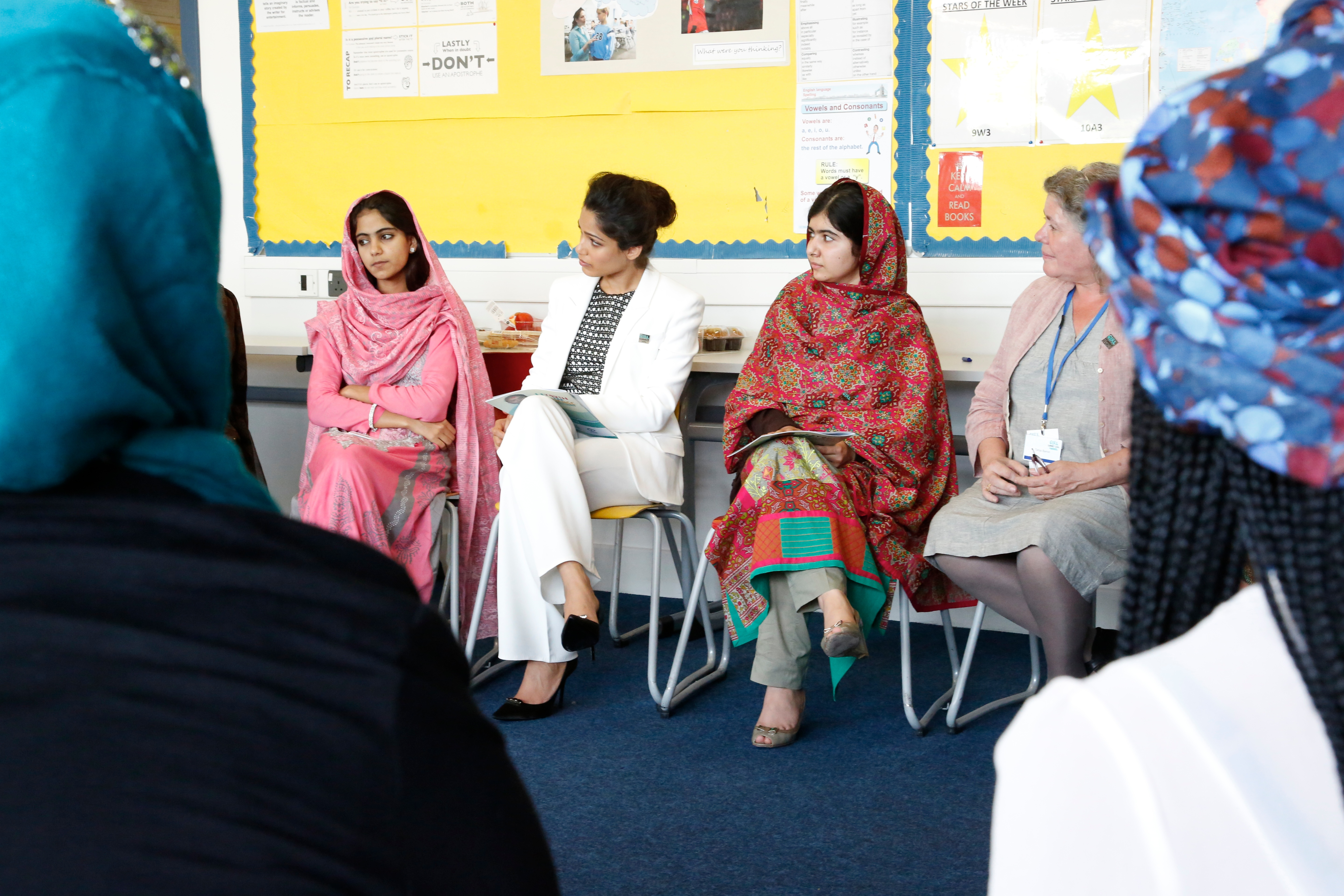 Picture: Jessica Lea/Department for International Development